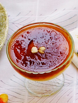 Hyderabadi cuisine dessert, Qubani ka Meetha ( Apricot Sauce with Custard )